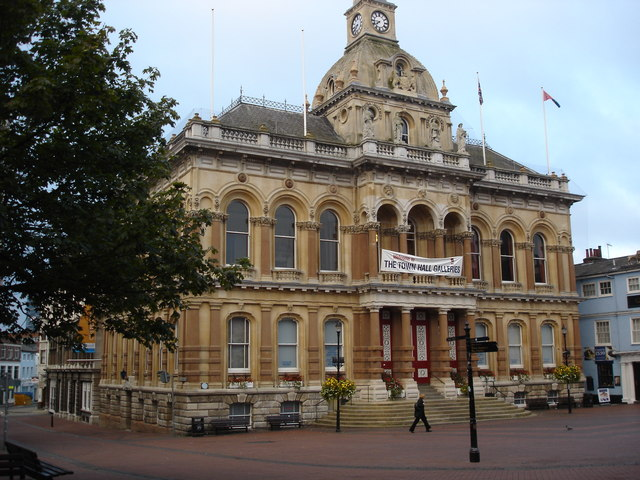 Ipswich Town Hall